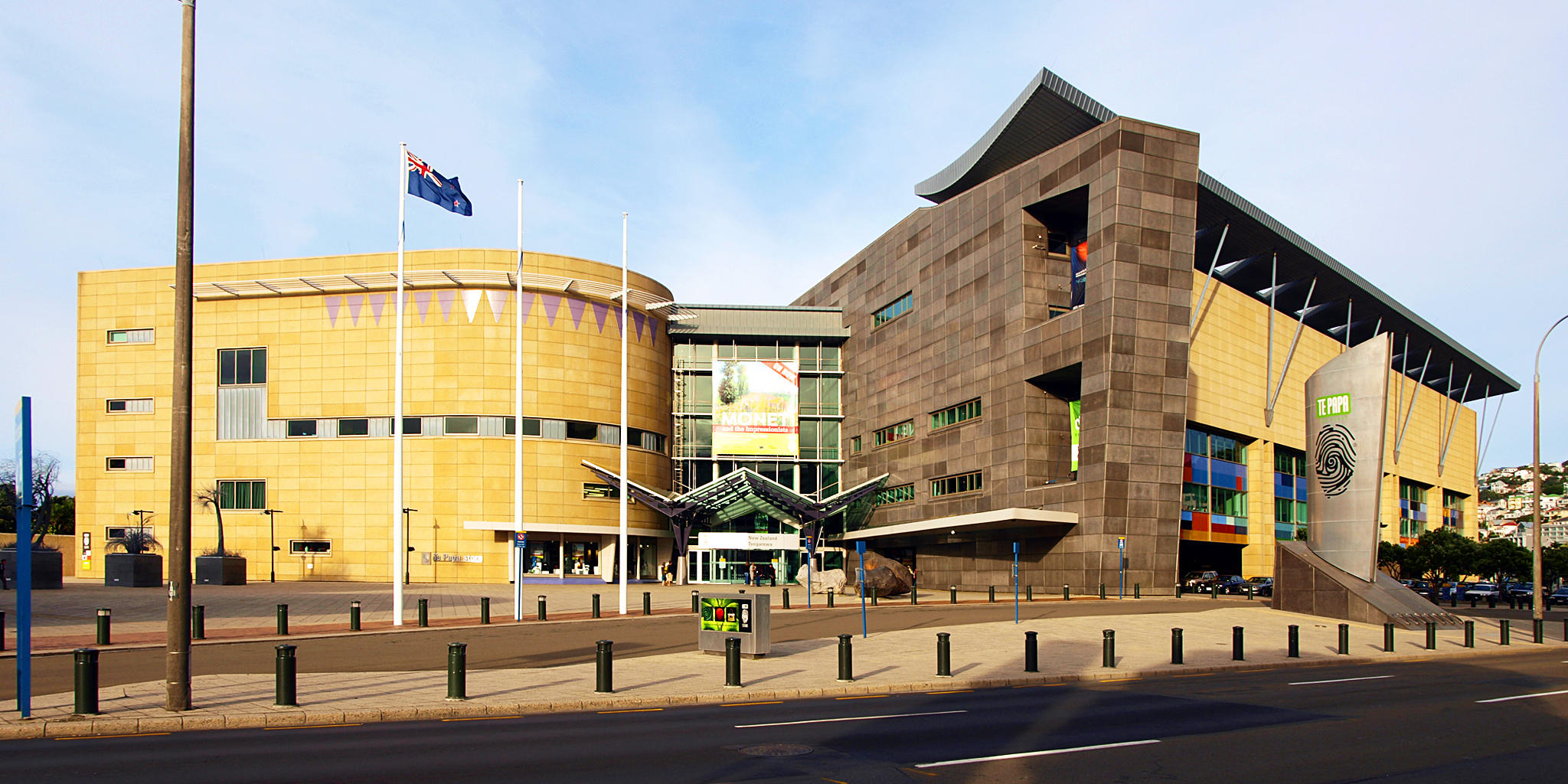 Museum of New Zealand Te Papa Tongarewa, Wellington, New Zealand (2009) (front side with entrance)